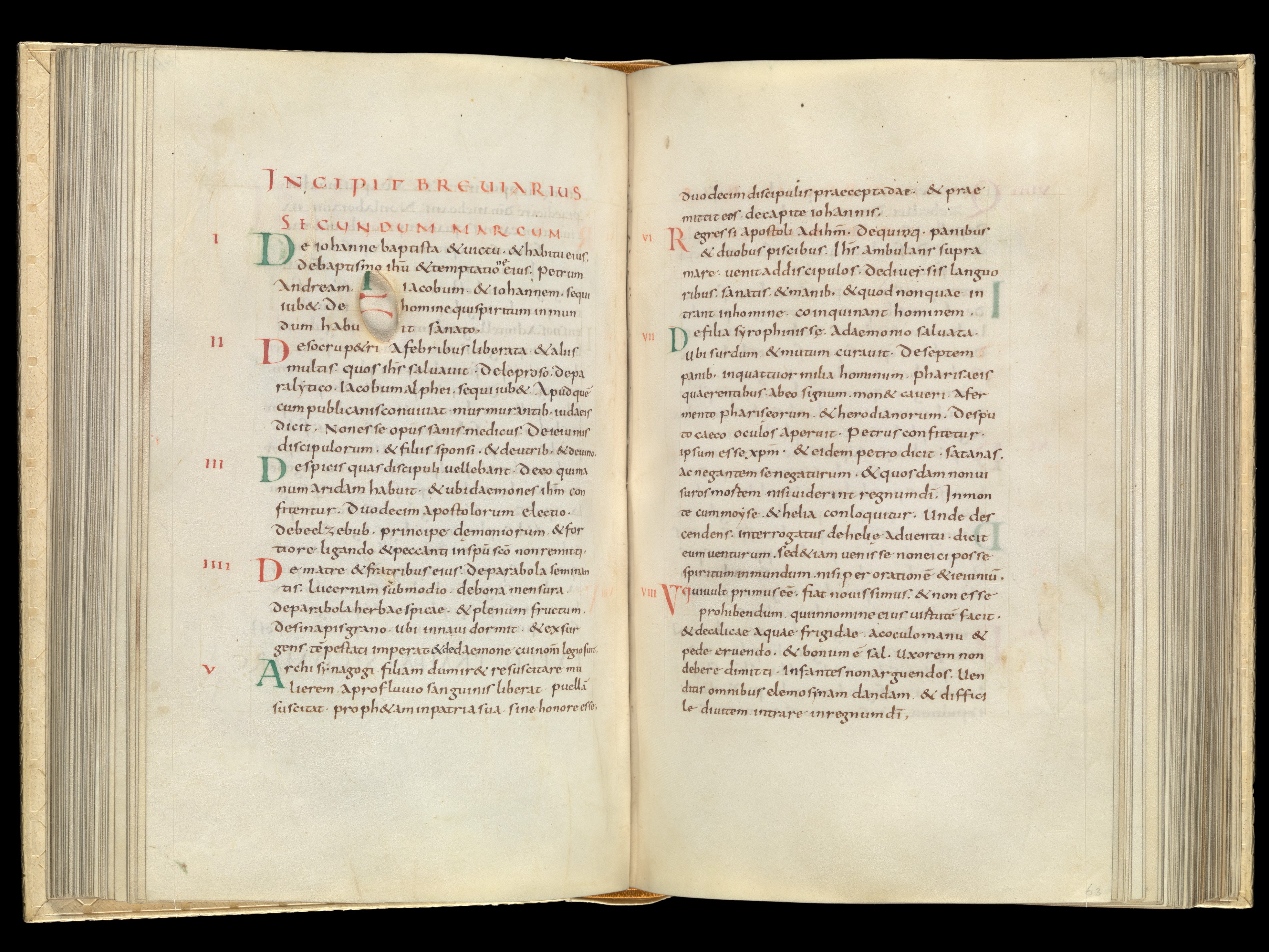 Passage du l'évangéliaire de la Reine Theutberge, on peut y voir une écriture en Carolingien mineur et avec de l'encre de couleur noir, vert et rouge.